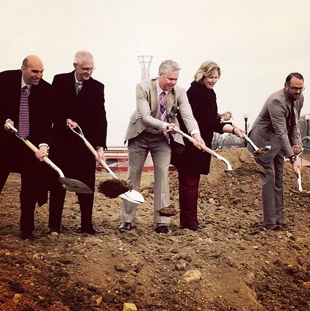 Formal groundbreaking for Water Street District, Dayton, Ohio, USA. Taken 3/19/2015